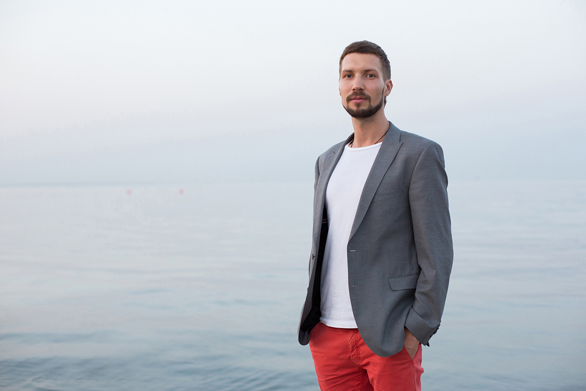 Stepan Ryabchenko by Alexander Kozachenko